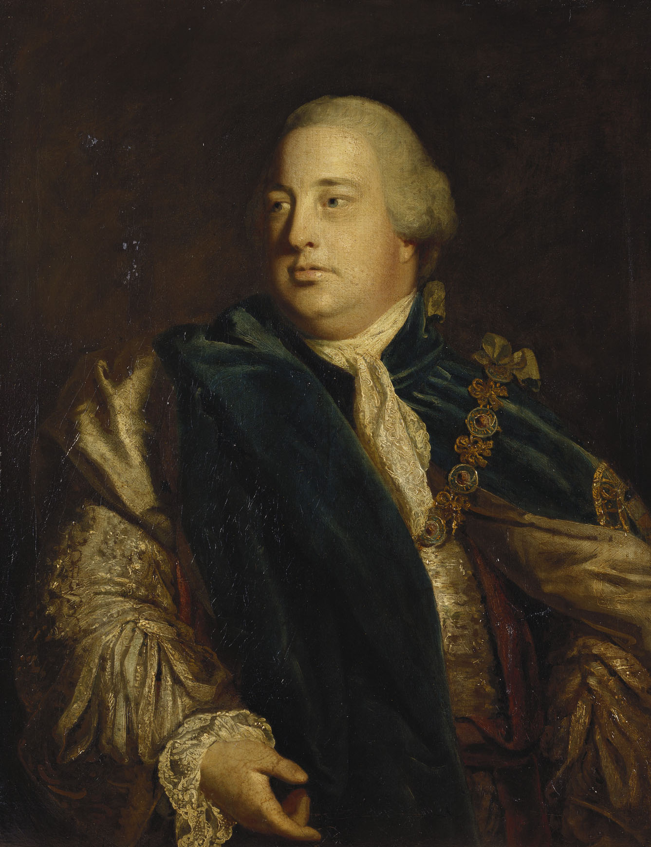 Prince William Augustus, Duke of Cumberland